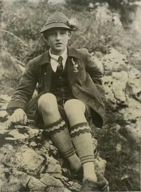 Albrecht, Duke of Bavaria (1905–1996)